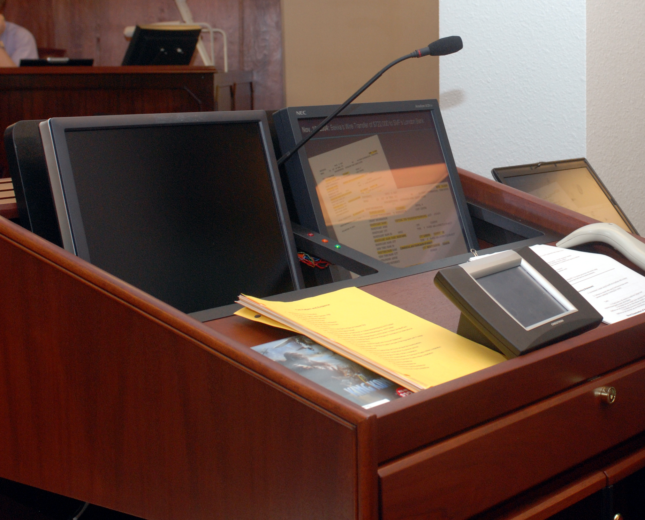 The center control console for a new state-of-the-art audio and video technology in the Guantanamo Office of Military Commissions courtroom will enable attorneys and other courtroom participants to direct sound and images to different locations and personnel within the courtroom building. The new technology mirrors that of modern federal courtrooms in the United States. (JTF Guantanamo photo by Army Spc. Shanita Simmons)